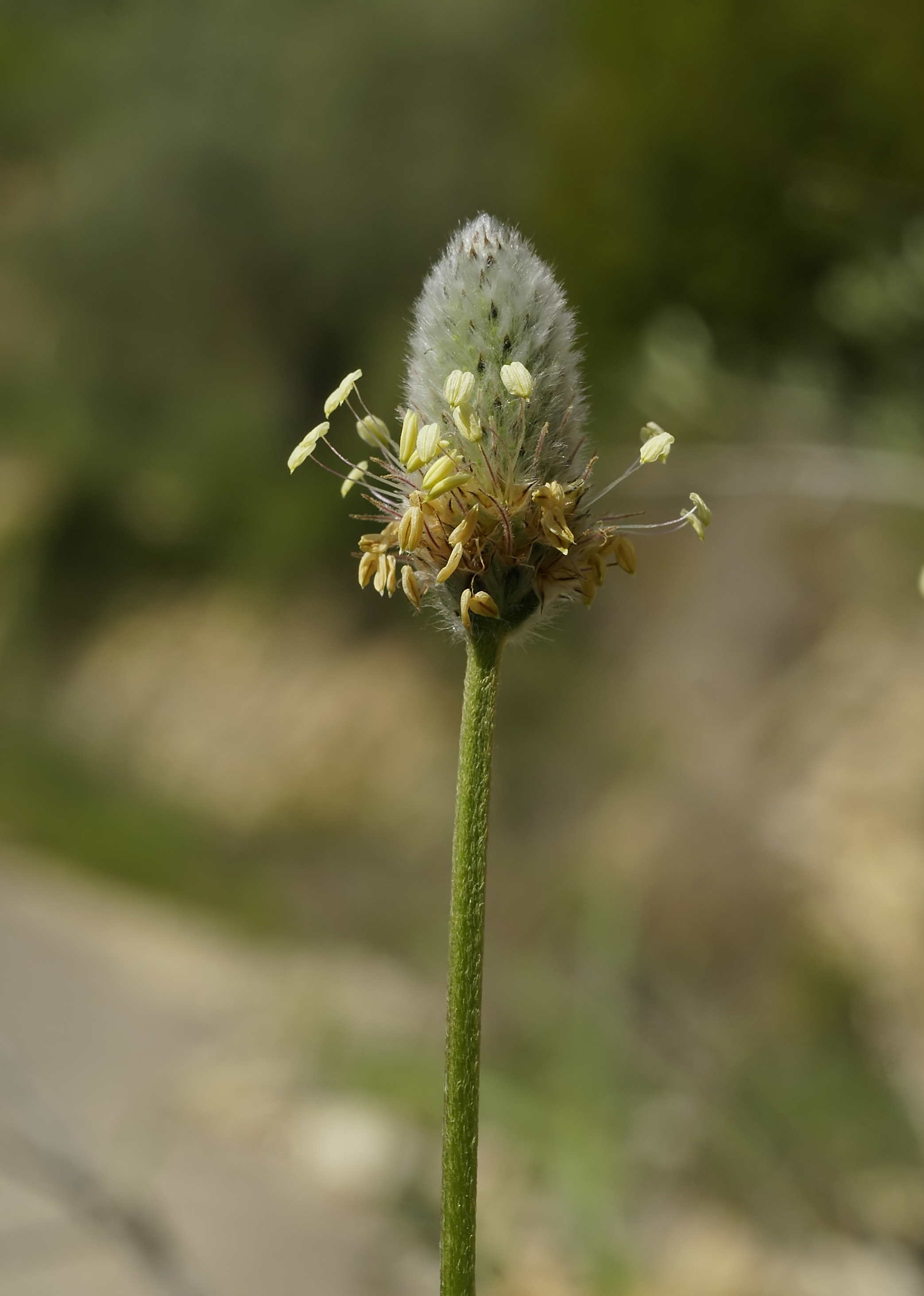 close to el Perelló, Catalonia, Spain